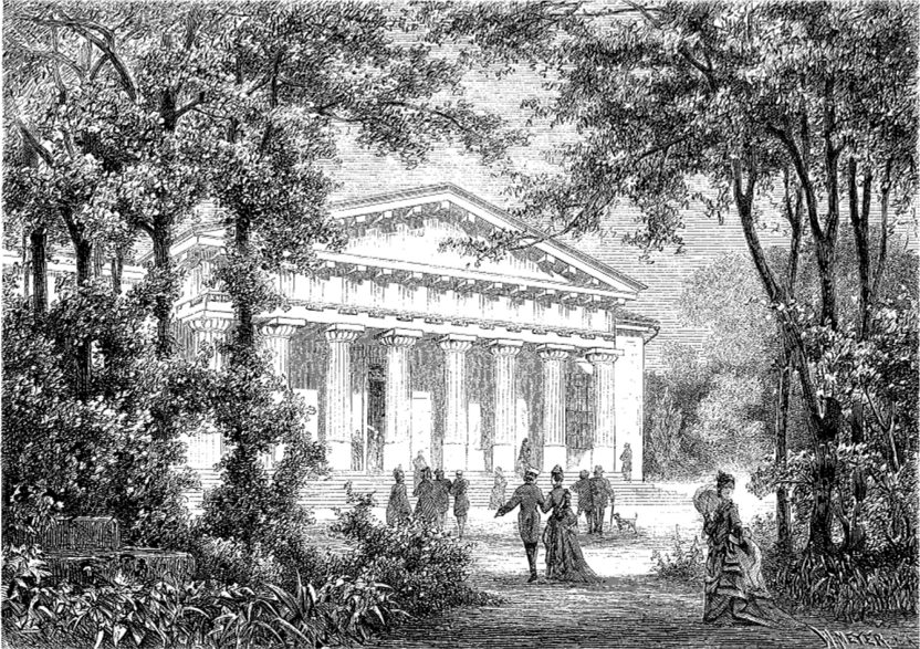 The Uppsala Orangerie in the Botanical garden of Uppsala University, Sweden. Original drawing by C. S. Hallbeck, as anengraving by Wilhelm Fredrik Meyer (1874).